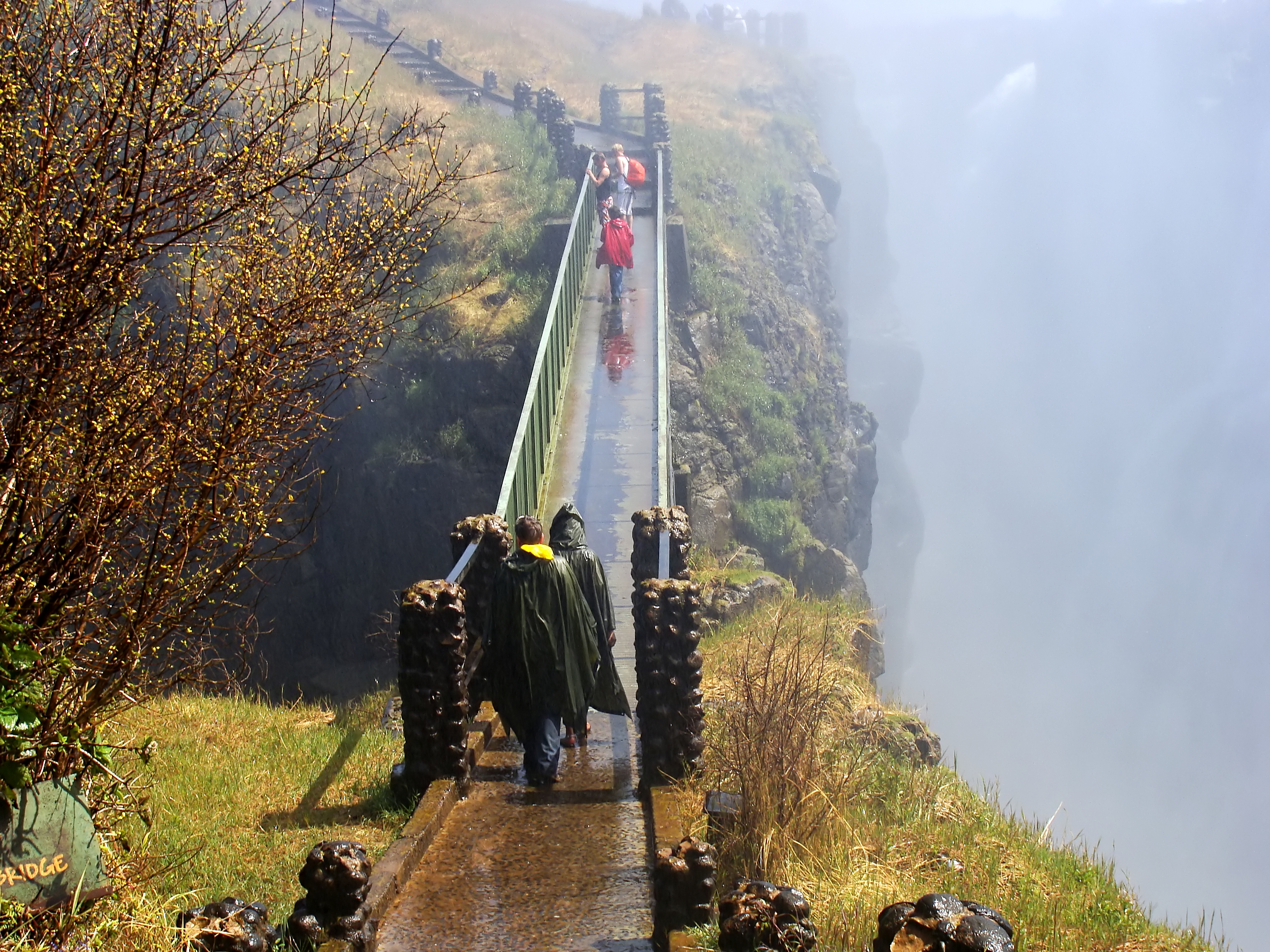 Knife Edge Bridge at the Victoria Falls near Livingstone, Zambia